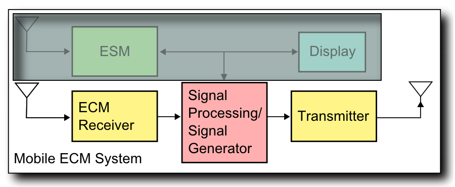 Electronic deception system. Mobile ECM system